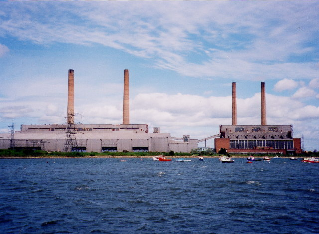 Former Blyth A & B Power stations